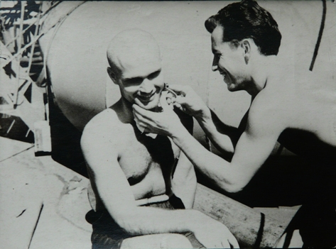 Reat hours on board of Soviet ship Karaganda. A haircut and having. Photo date 1961 or 1962.